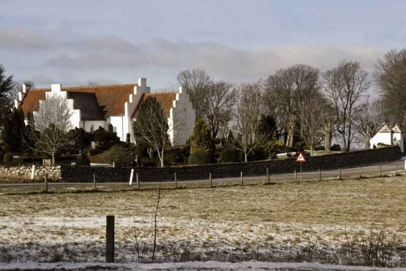 Flade Kirke, church situated close to Frederikshavn, Denmark